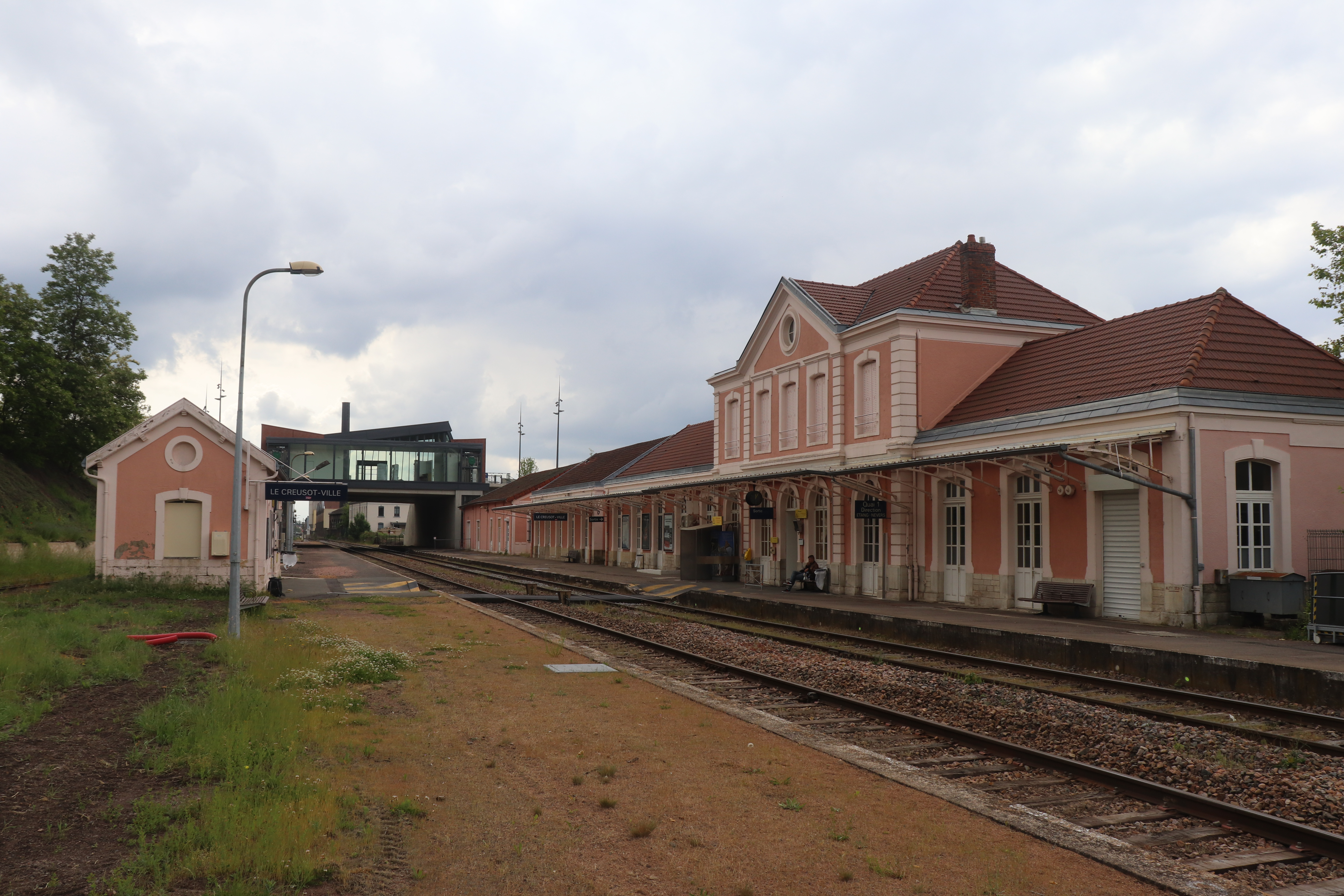 Le Creusot - railway station